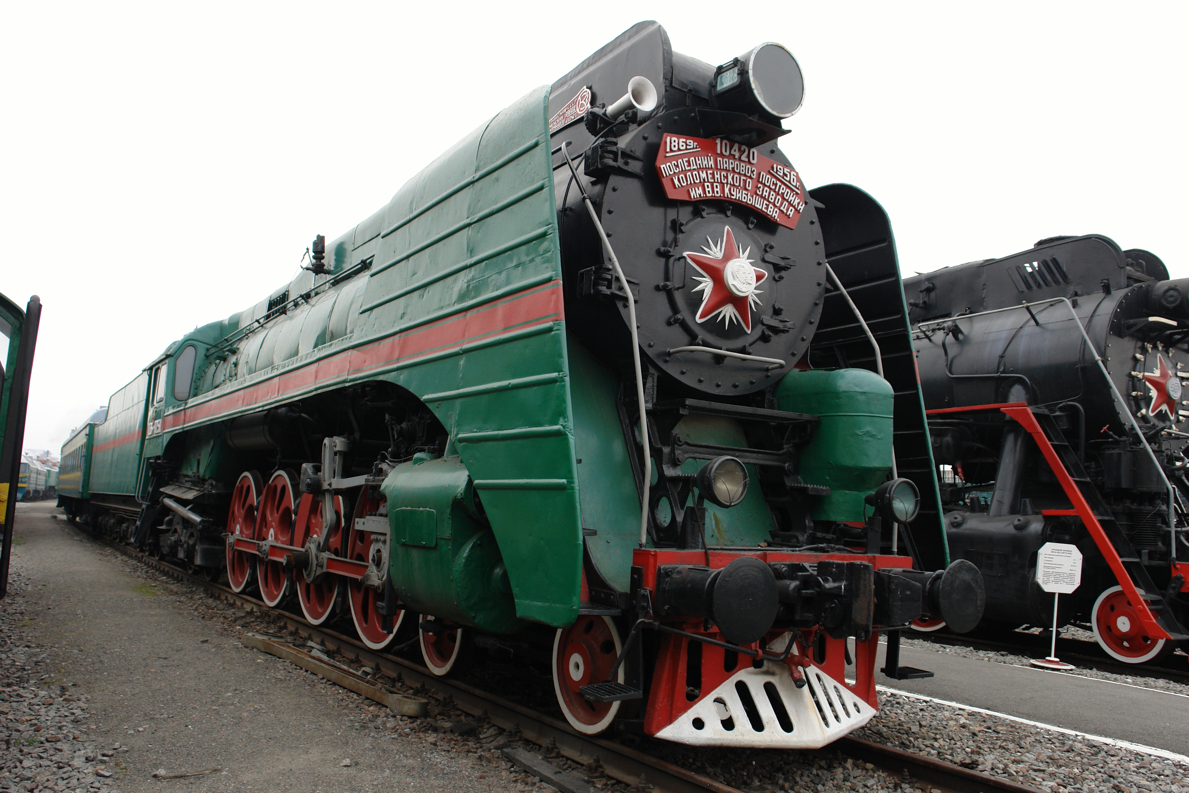 Passenger steam locomotive P36-0251 Weight in working order:excluding tender135 tincluding tender230 tDesign speed125 kphMaximum power at wheel rim3077 hp Built by the Kolomna Steam-locomotive-building Works named afte V.V. Kuibyshev in 1956. It was the last steam passenger locomotive built in Russia. It worked on the Kuibyshev, Northern and Far Eastern railways. From 1982 it was used as a boiler at the Dal'vodremmash factory in Ussurisk. It was delivered to the museum in 1992.